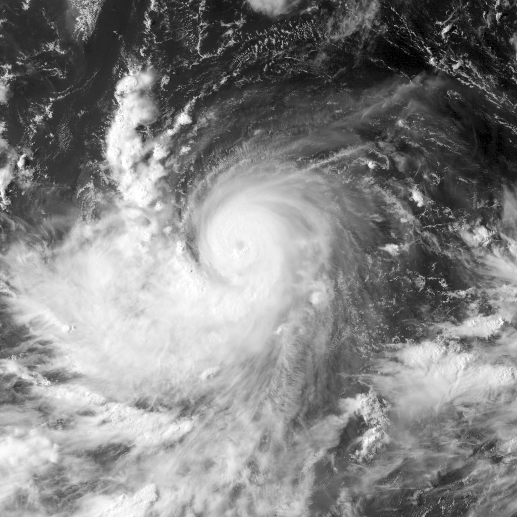 2011-08-25 TC 14W NANMADOL